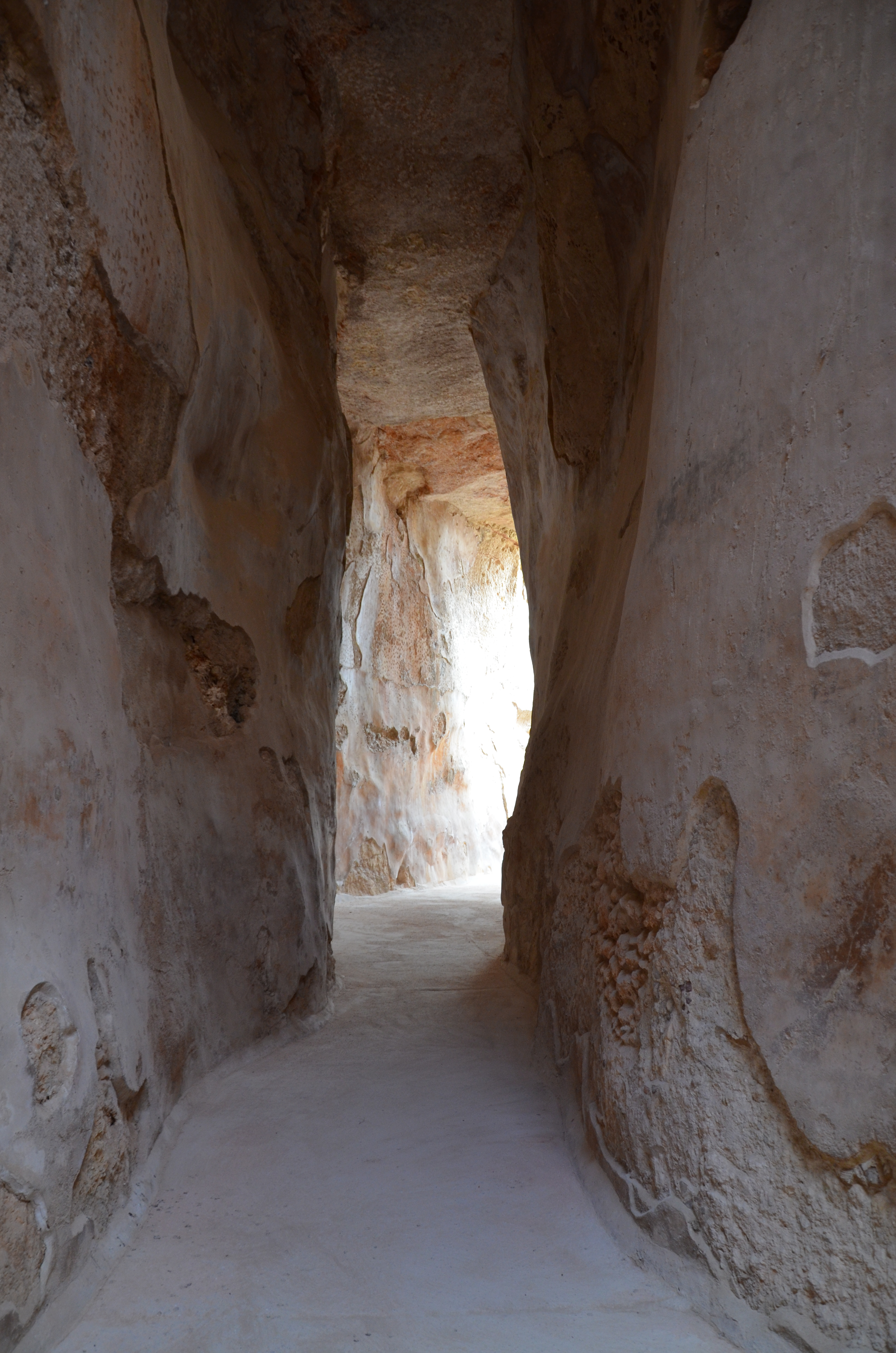 Sepphoris (Diocaesarea), Israel